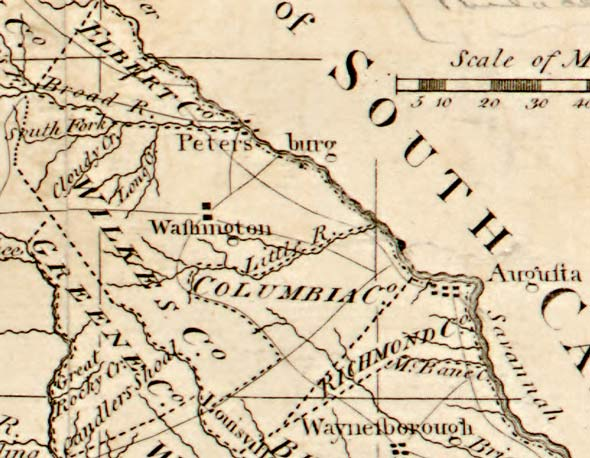 Cropped piece of 'Georgia, from the latest authorities' by W. Barker, published by M. Carey, Philadelphia, 1795. Upper Savannah River showing Georgia towns of Augusta and Petersburg.